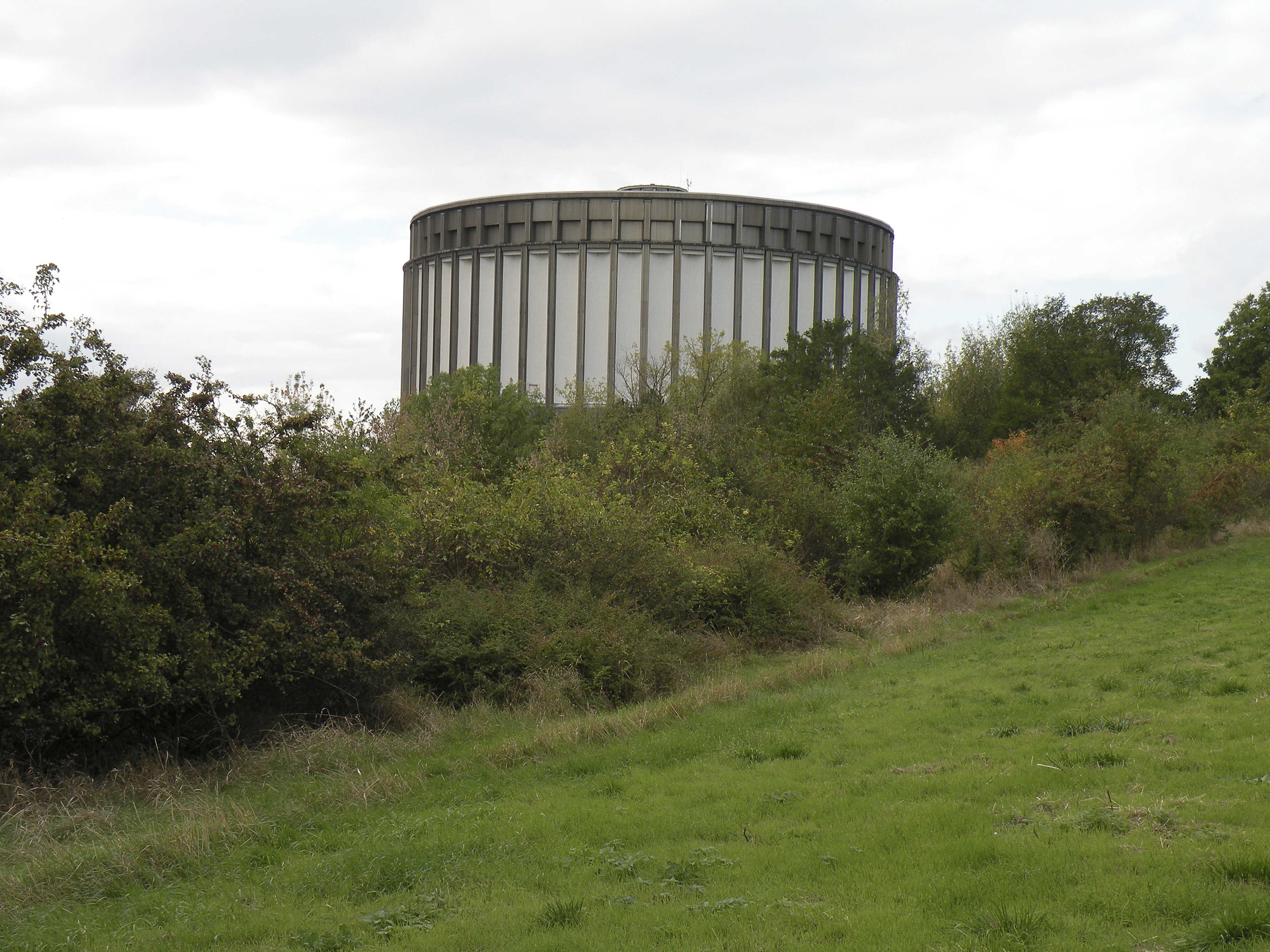 Building of Panorama Museum above the Bad Frankenhausen.